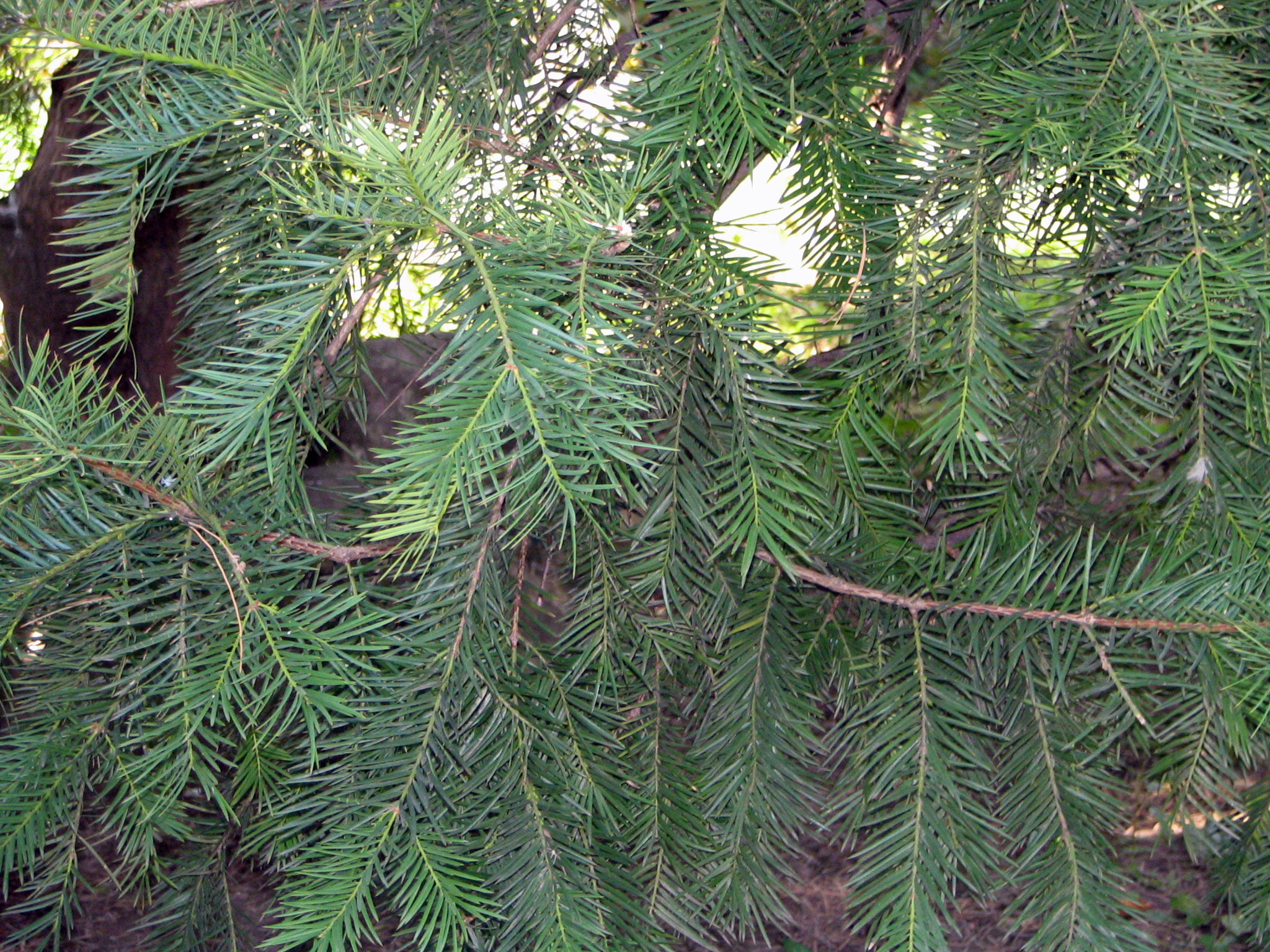 Species Torreya nucifera Taken by Bogdan Giuşcă, 27 October 2005. Parcul Cişmigiu, Bucharest